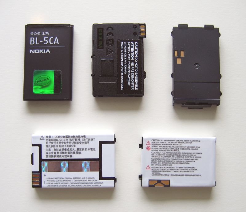 Several lithium-ion batteries for mobile phones